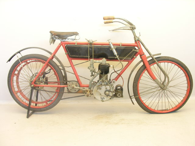 American Torpedo 400 cc motorcycle from 1907.